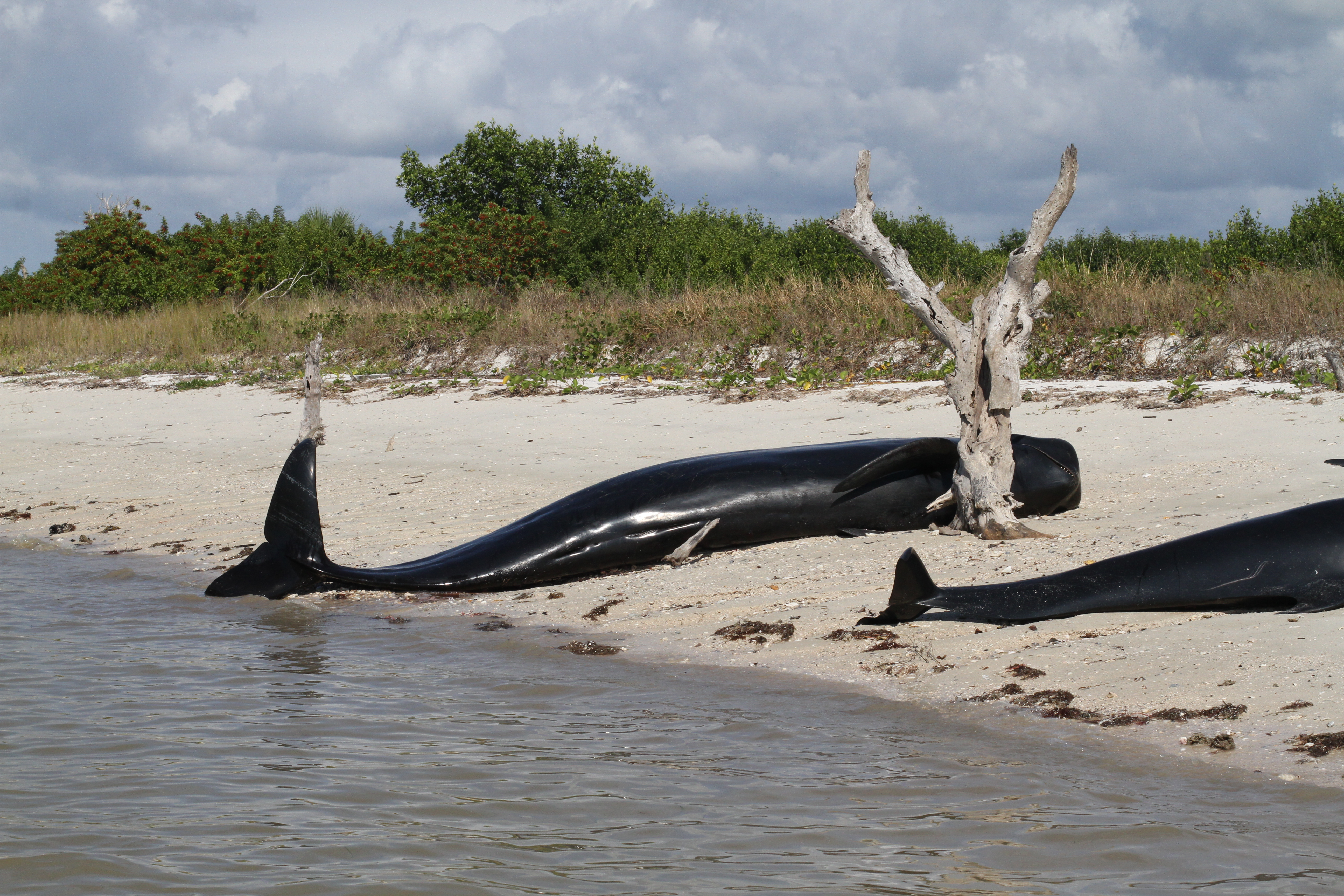 120413 Beached Pilot whales 2